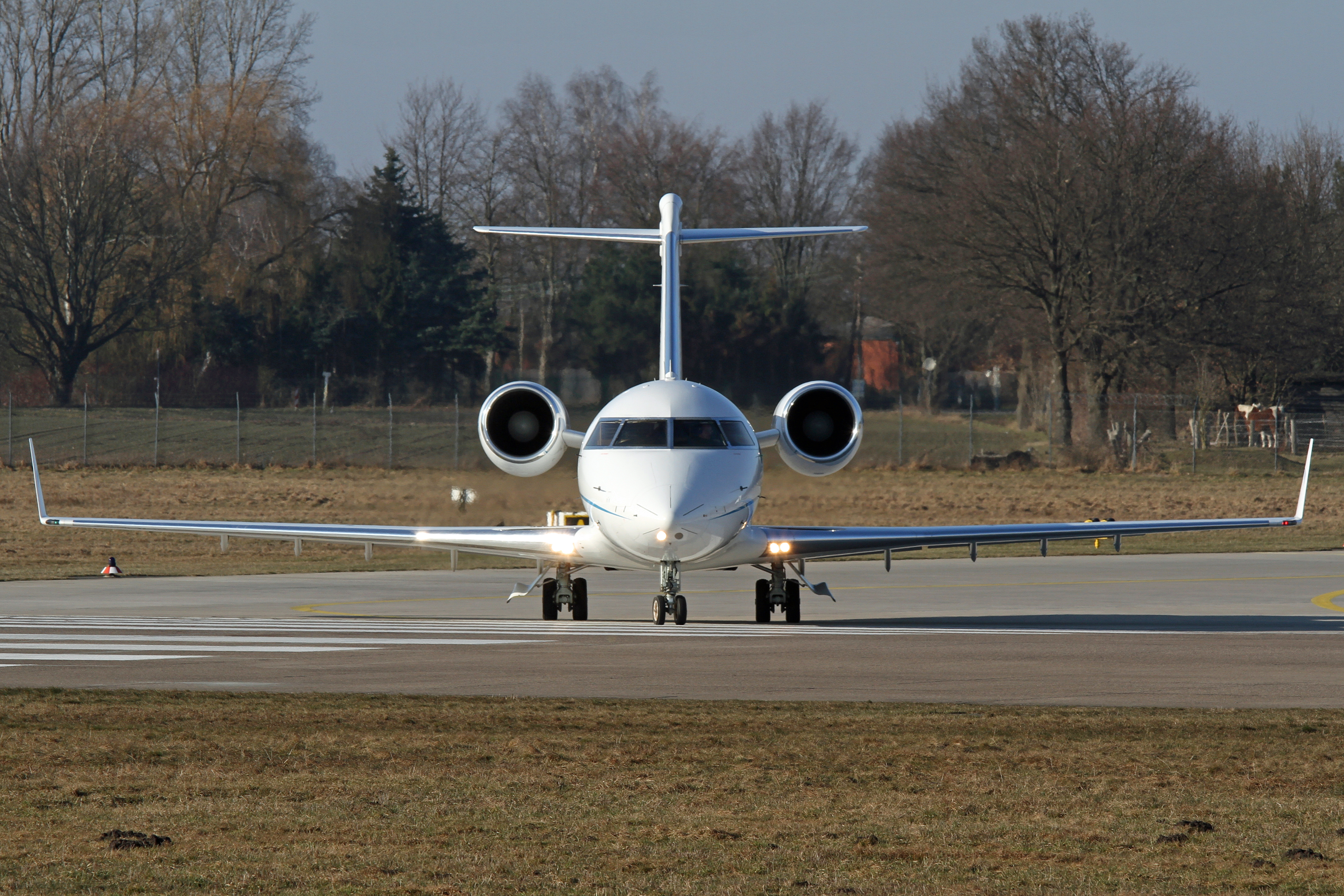 Bombardier Canadair Regional Jet at Hanover/Langenhagen International Airport